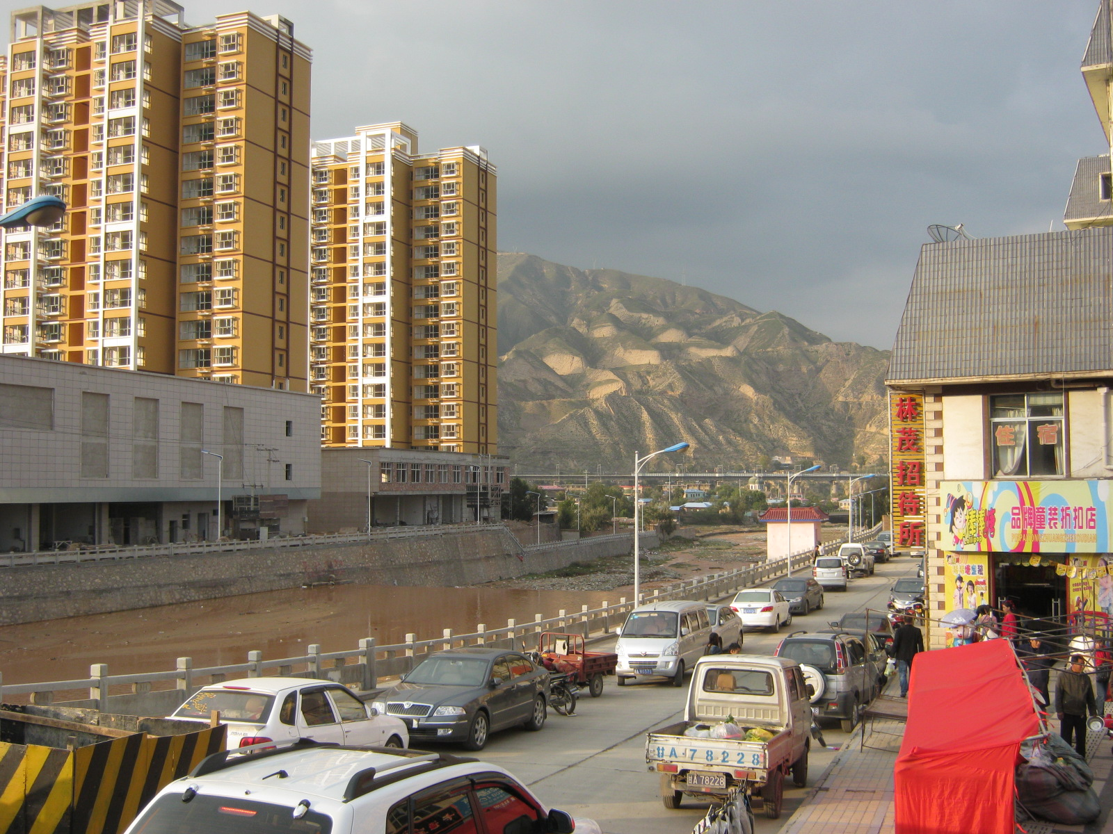 MinHe2